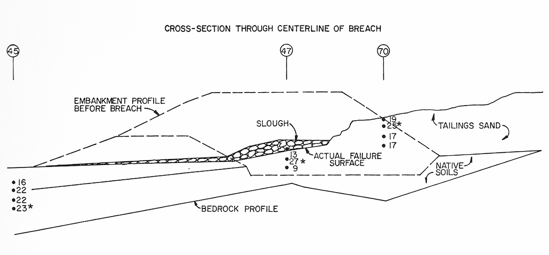 A diagram of the Church Rock uranium mill tailings dam breach in New Mexico, a radionuclide pollution disaster that occurred in the morning of July 16, 1979. NRC—Nuclear Regulatory Commission document.